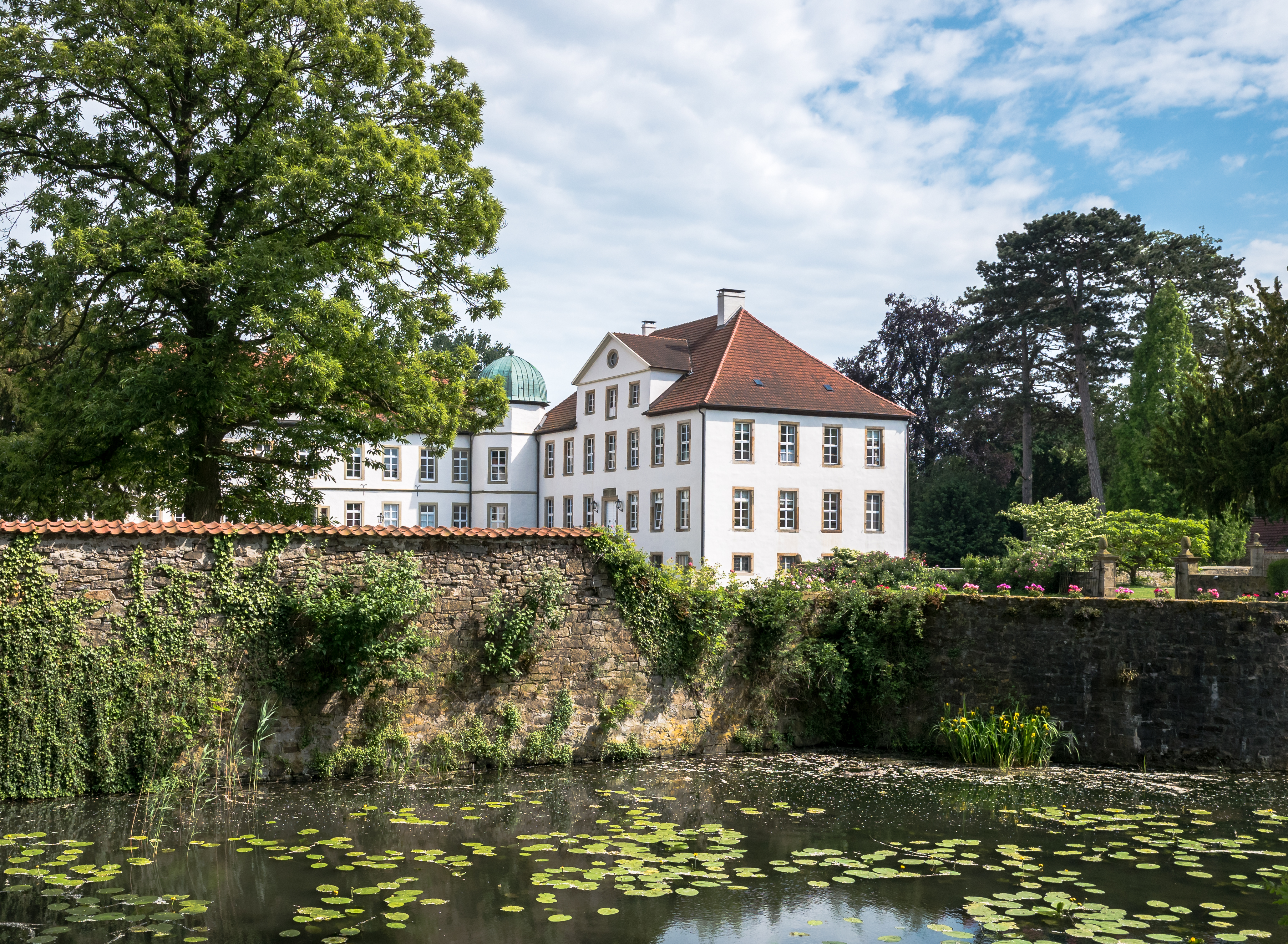 Hünnefeld Castle near Bad Essen. Moat. Osnabrück Land, Lower Saxony, Germany